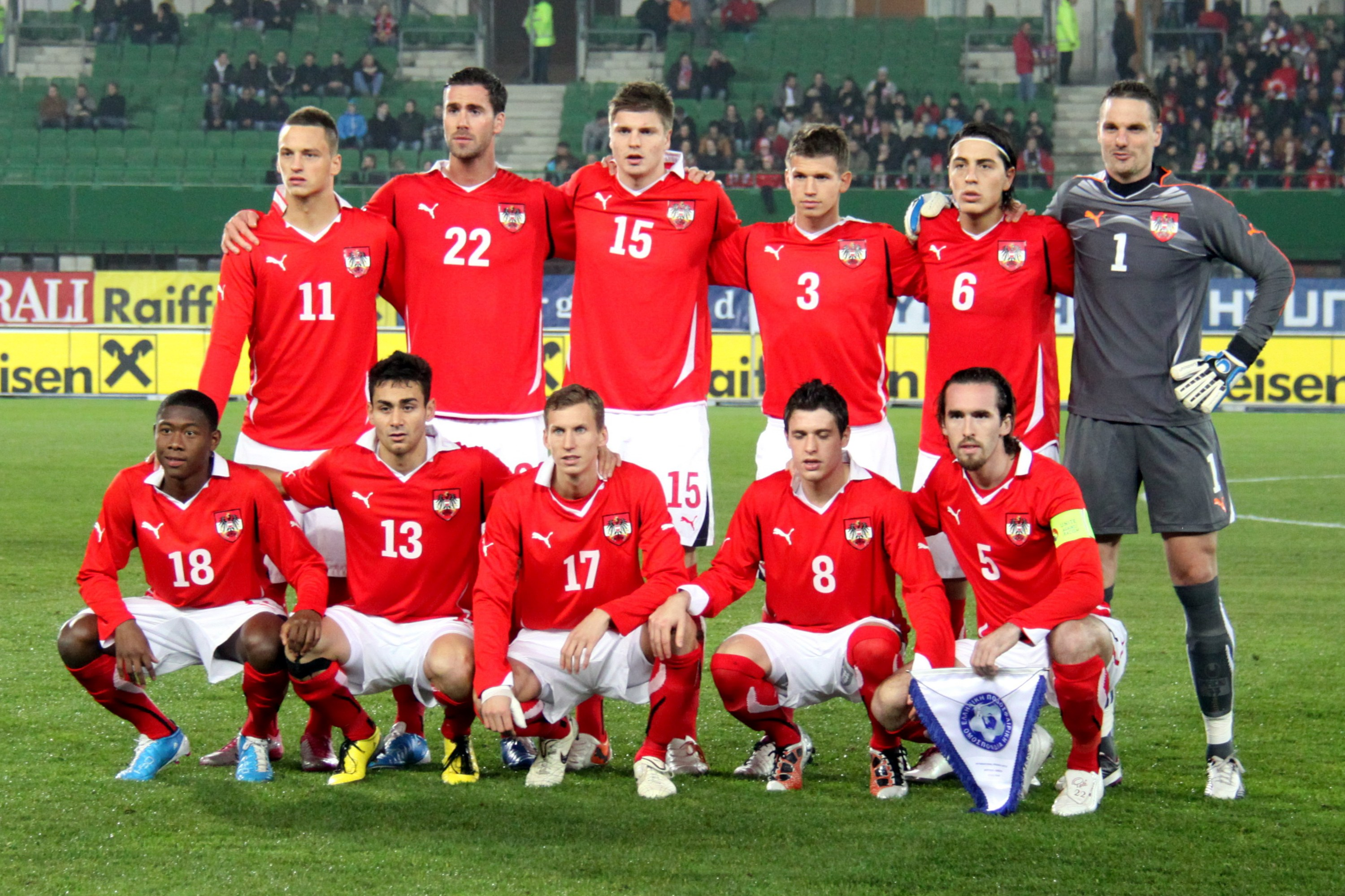 Austria national football team against Greece (1:2)